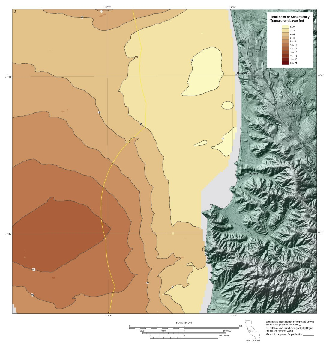 Detailed Isopach Map of unconsolidated Holocene sediments (the acoustically transparent layer) for the area offshore of Pacifica, California, United States.